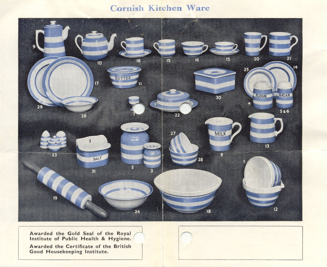 An early Cornish Ware sales brochure